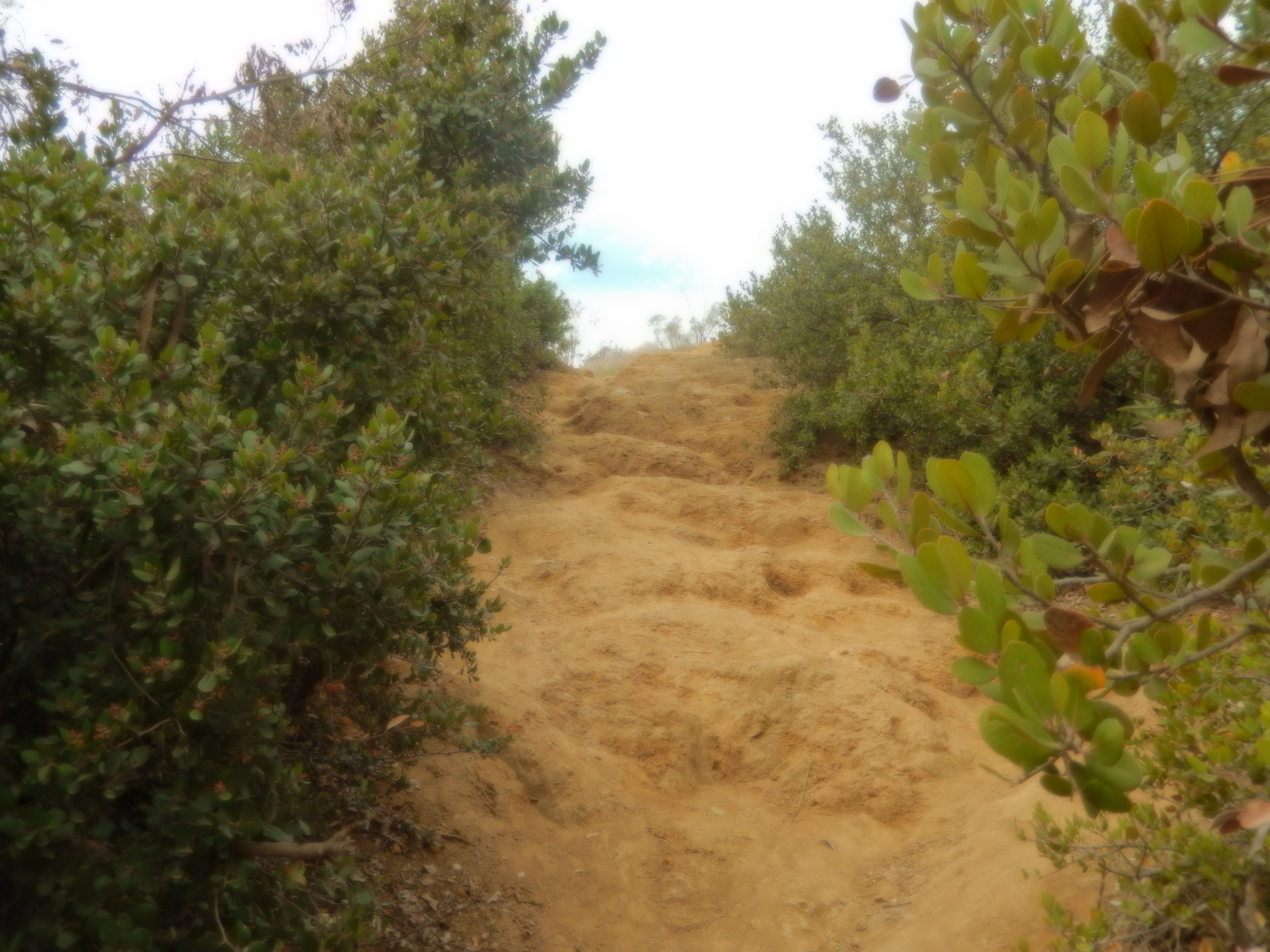 I took photo of hiking trail in Griffith Park in Los Angeles, CA, with Nikon camera.